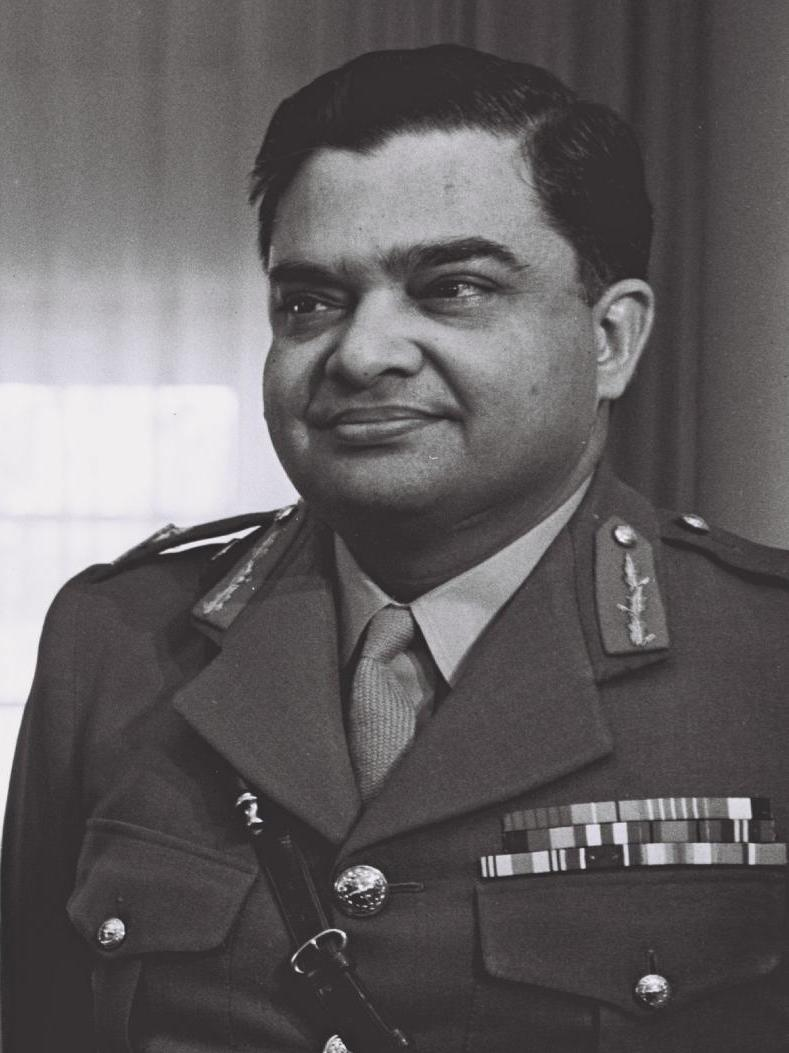 FOREIGN MIN. GOLDA MEIR WITH MAJ. GEN. RIKHYE (R) AND PIER SPINELLI (L) OF U.N. AT FOREIGN MINISTRY IN JERUSALEM.